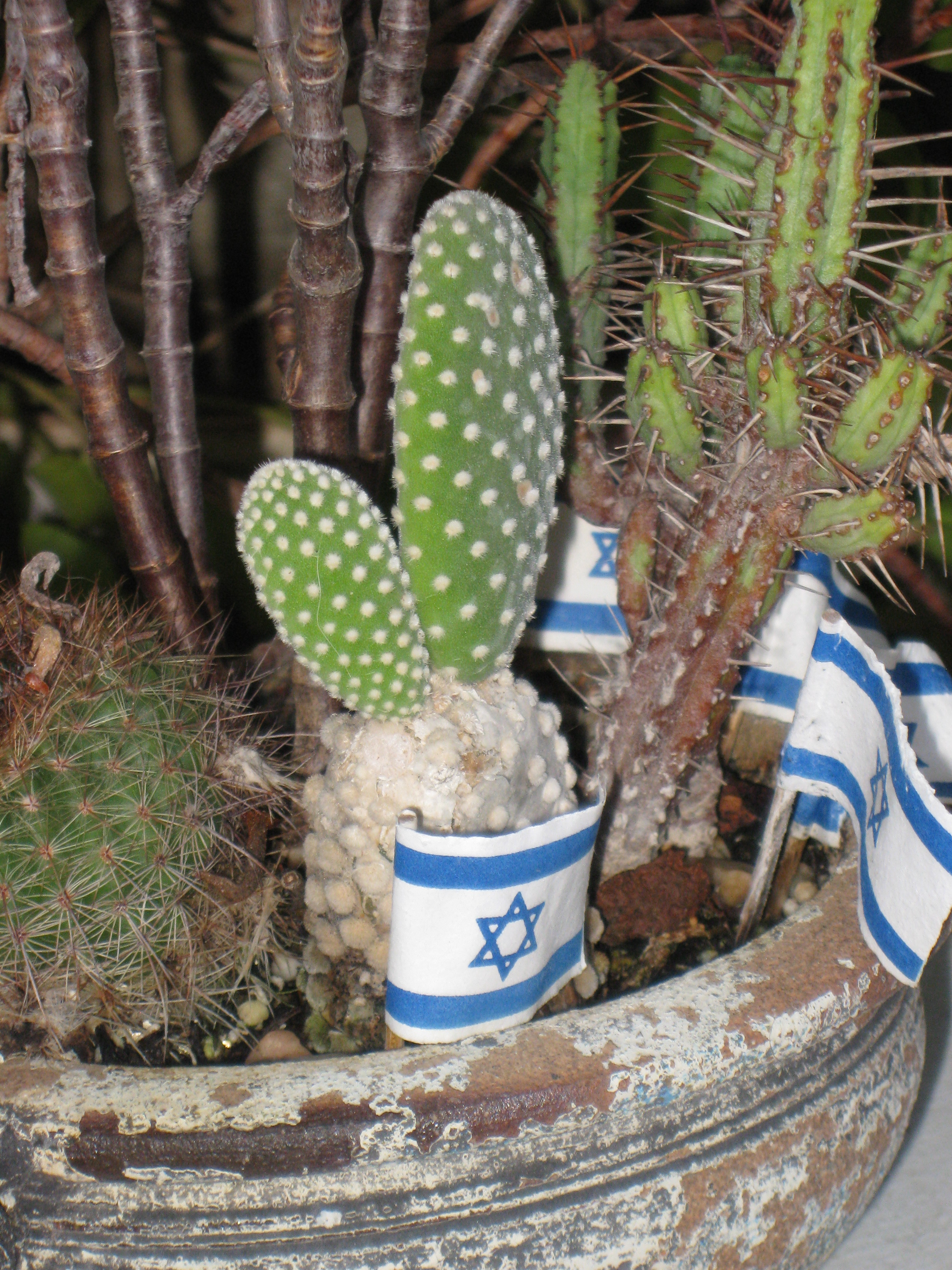 Israeli flag next to a cactus